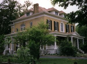 1998 - 2009 BEALL MANSION Greater St Louis bed and breakfast hotel Alton, Illinois